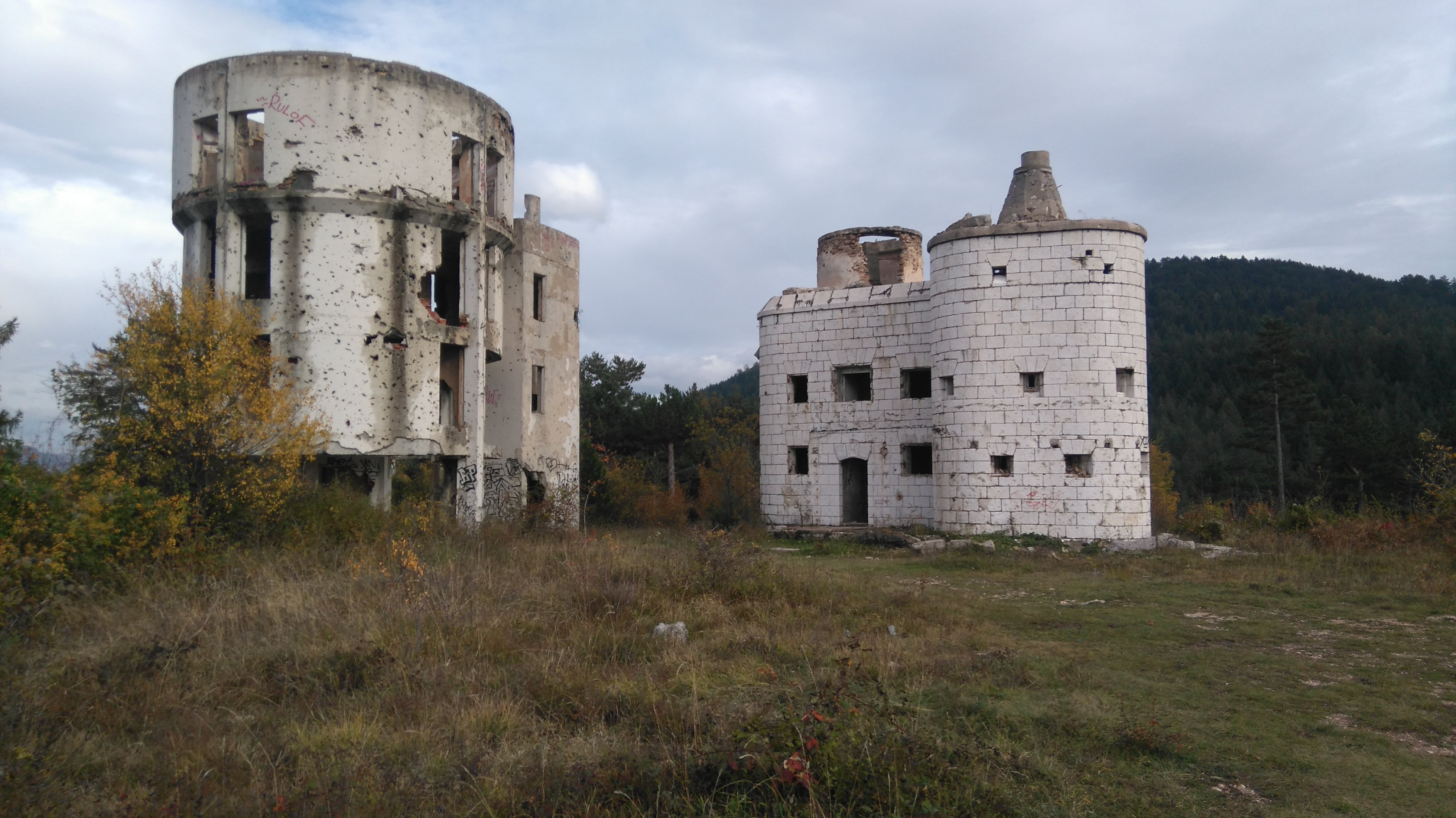 Ruins of a former Austrian fortress and the observatory of Sarajevo, wich was built later on it.